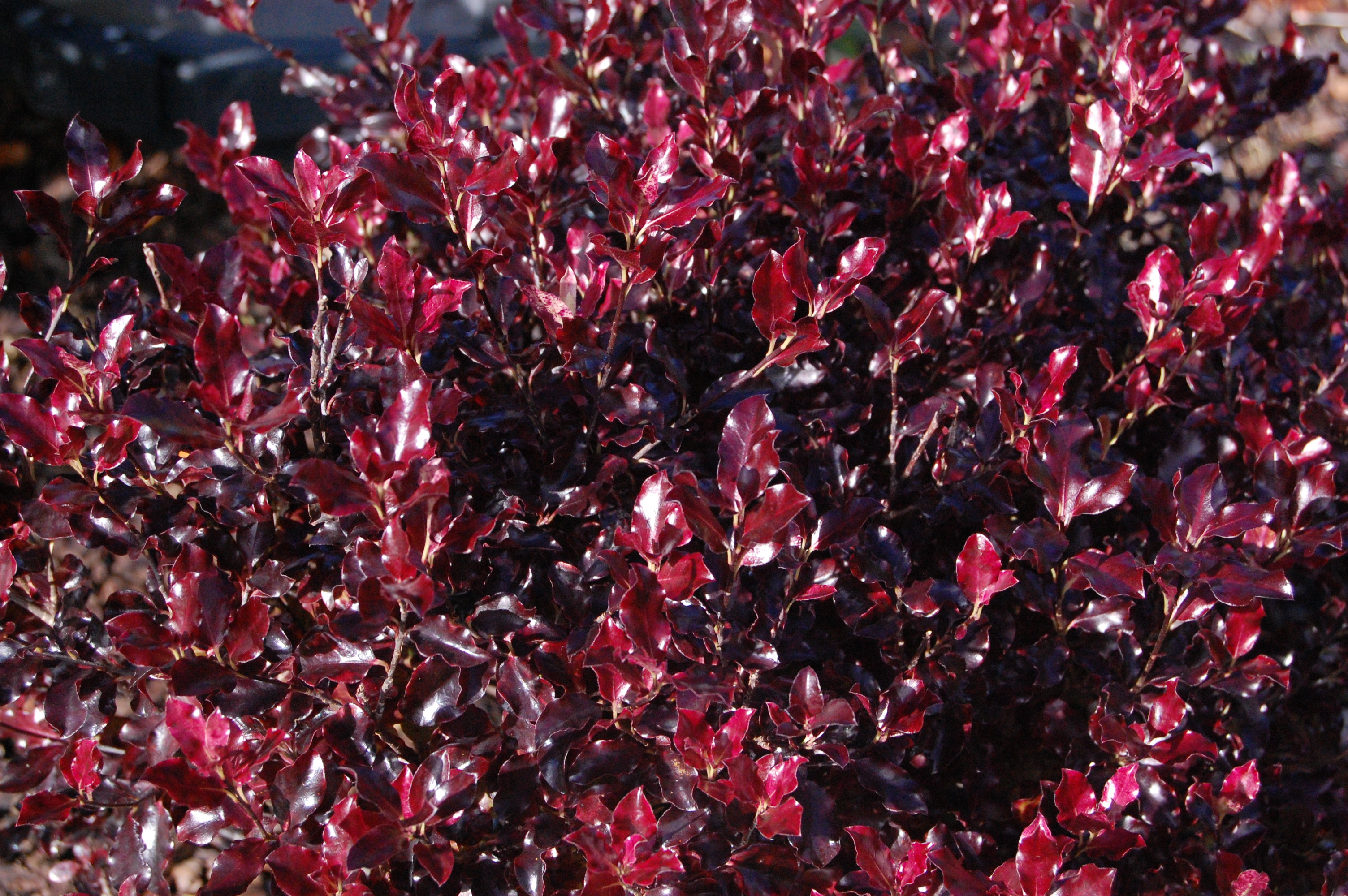 Specimen of Pittosporum 'Tom Thumb' photographed at Pacific Nurseries, Streetley, West Midlands, England, in Autumn.